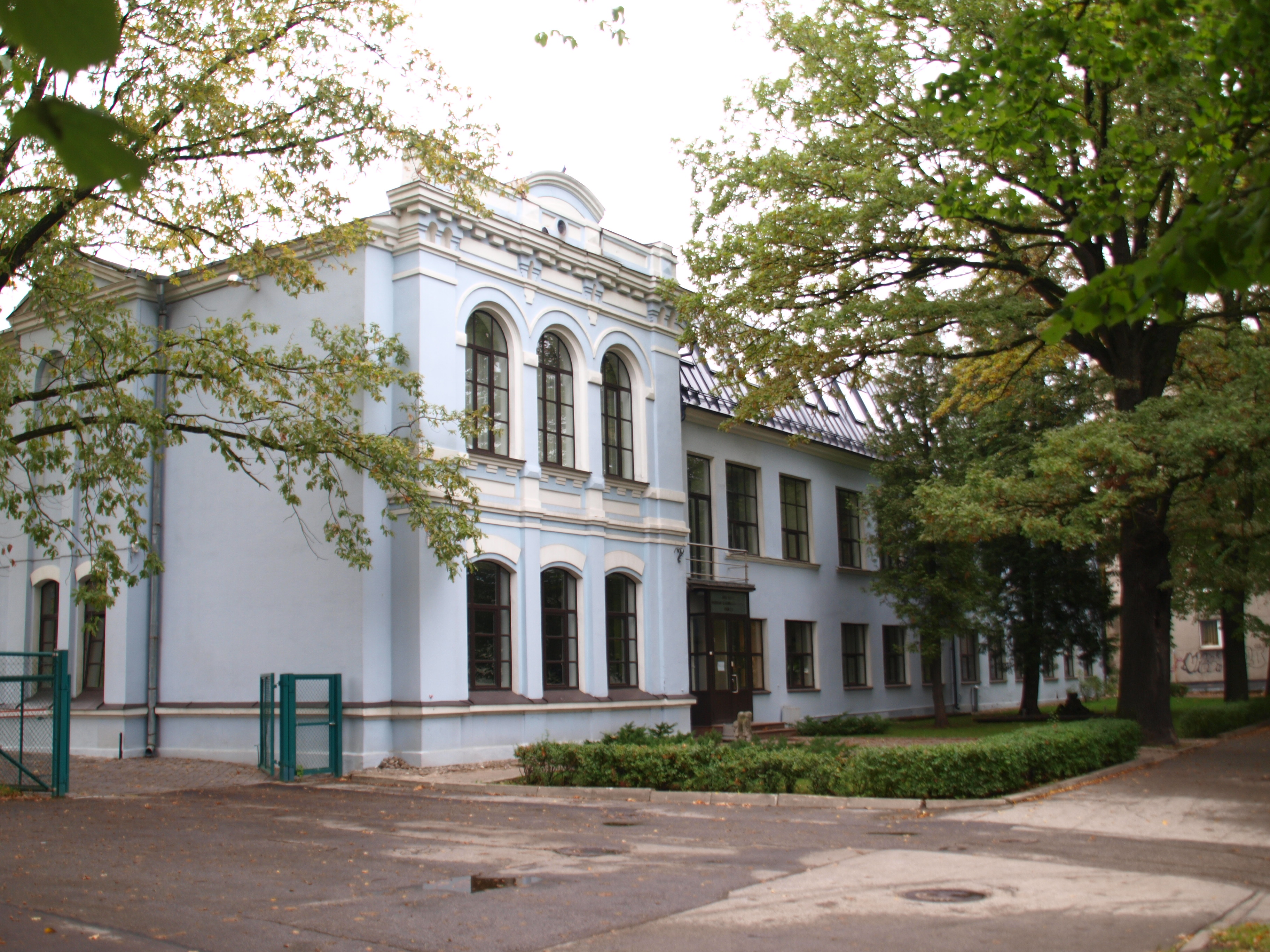 Former schoolbuilding in Tartu, now Institute of Molecular and Cell Biology (IMCB), University of Tartu.